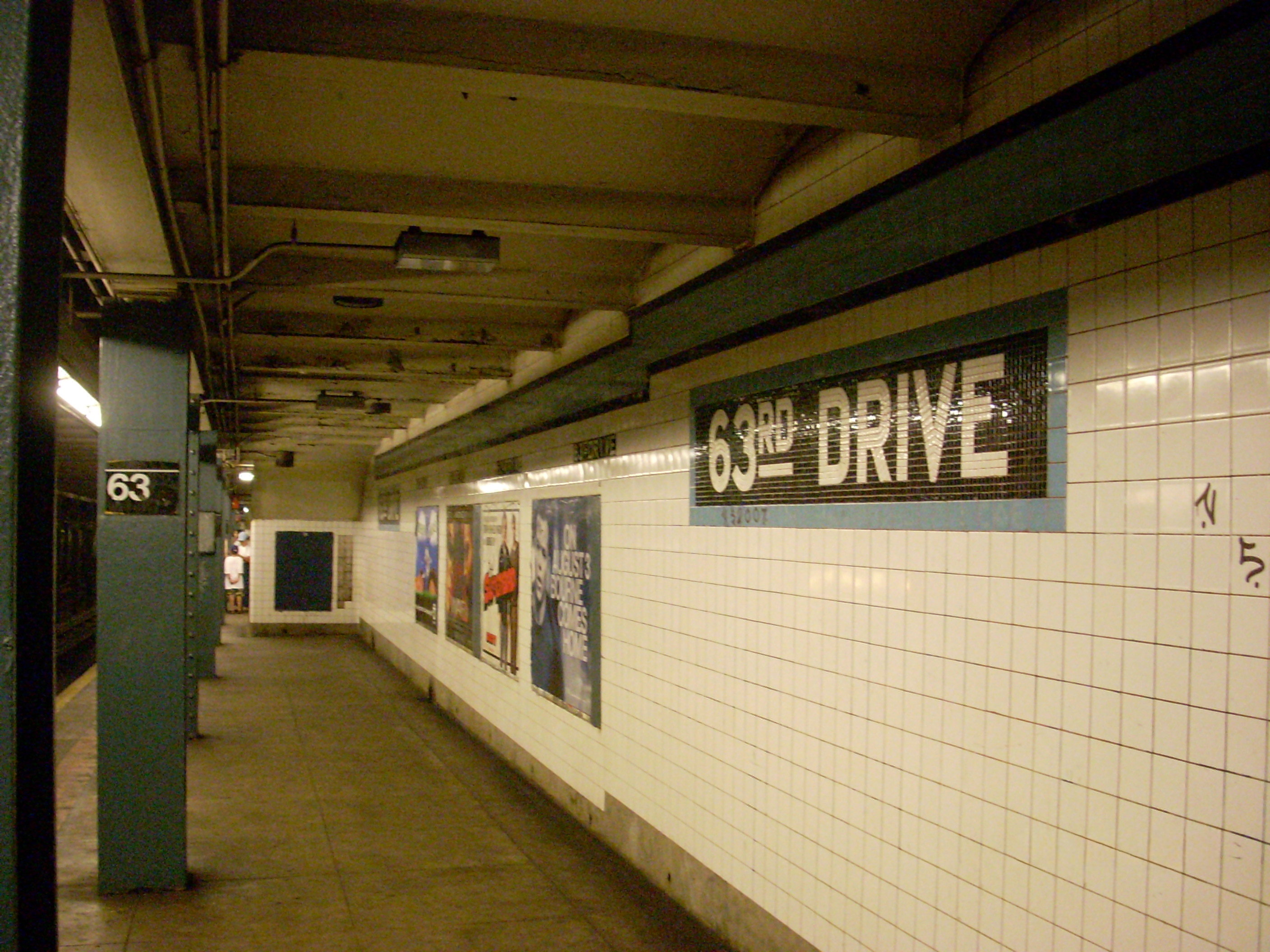 63rd Drive station on the G/R/V